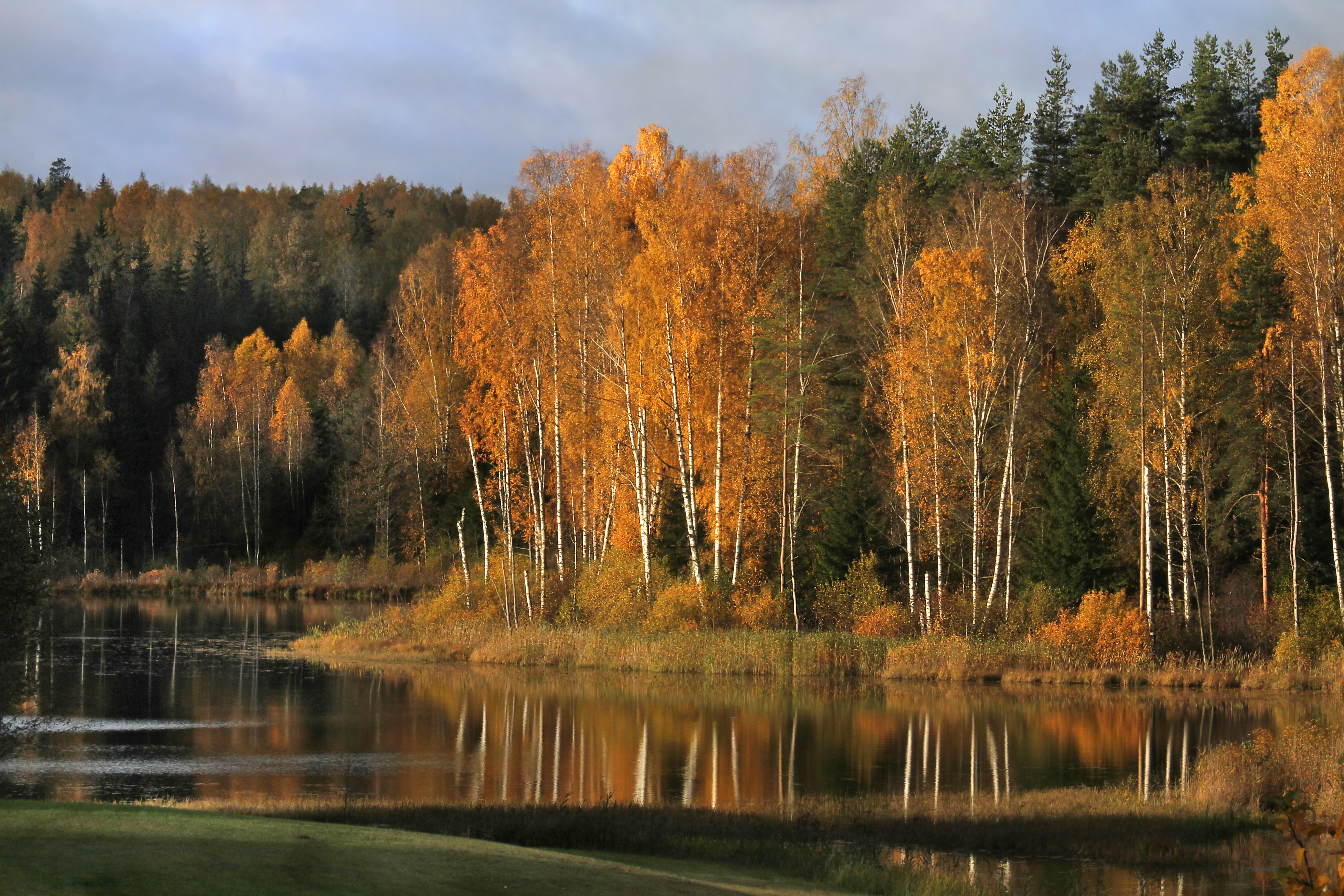 Lake Kavadi in southern Estonia